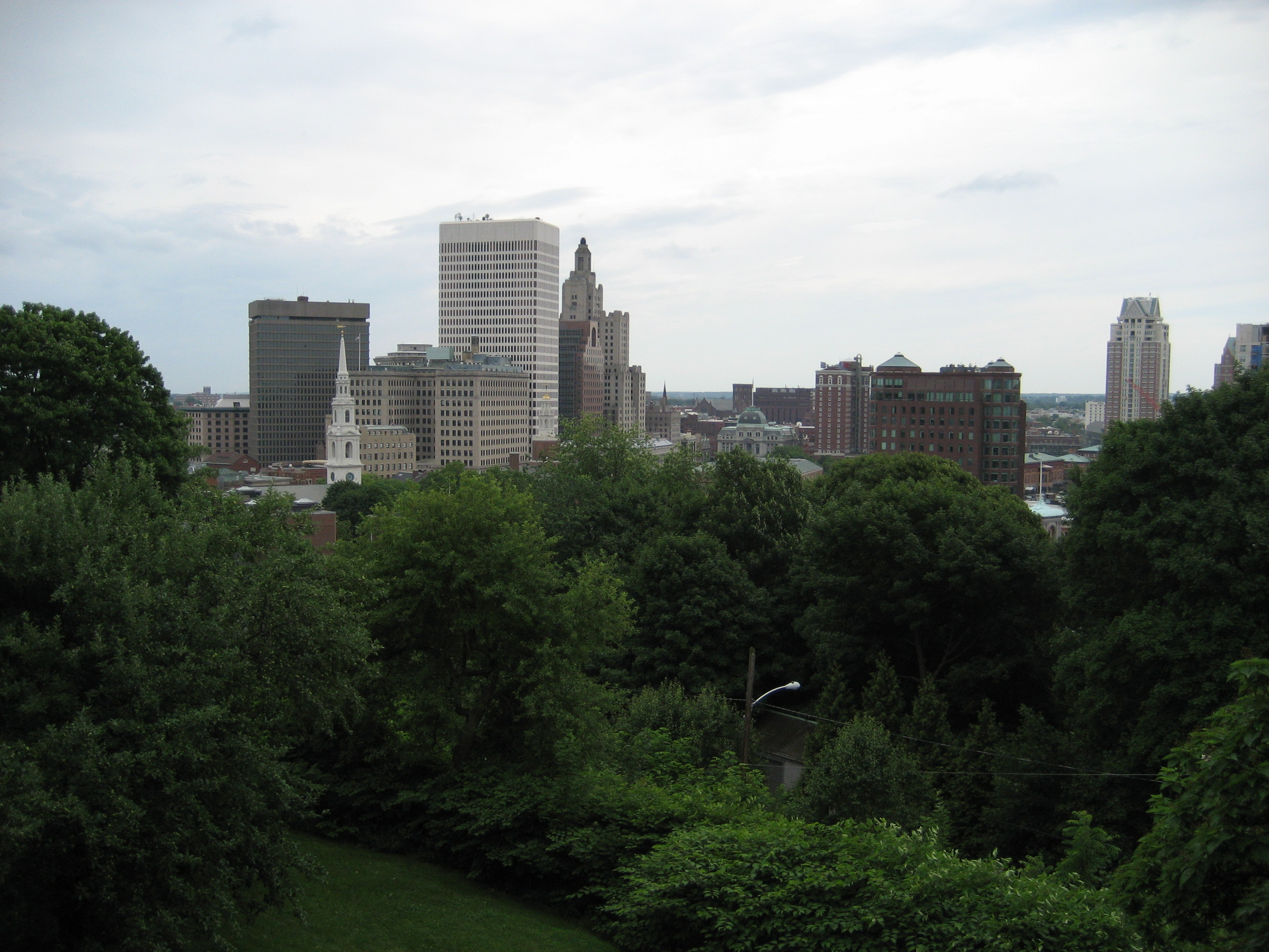 Providence, Rhode Island. View from Prospect Park